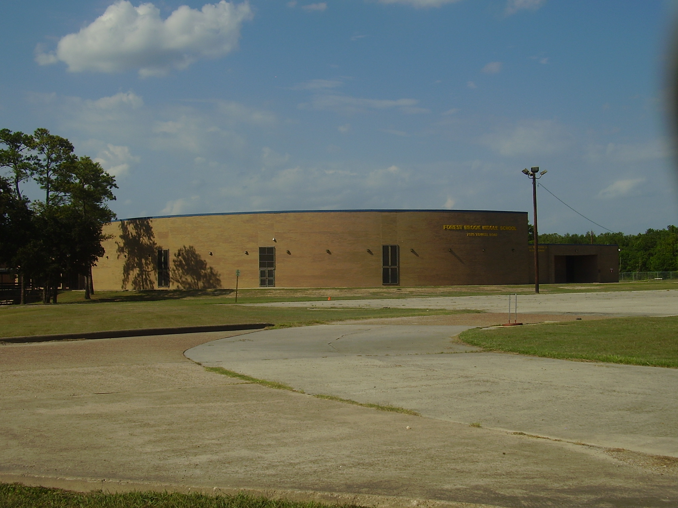 Forest Brook Middle School (formerly North Forest High School and Forest Brook High School)